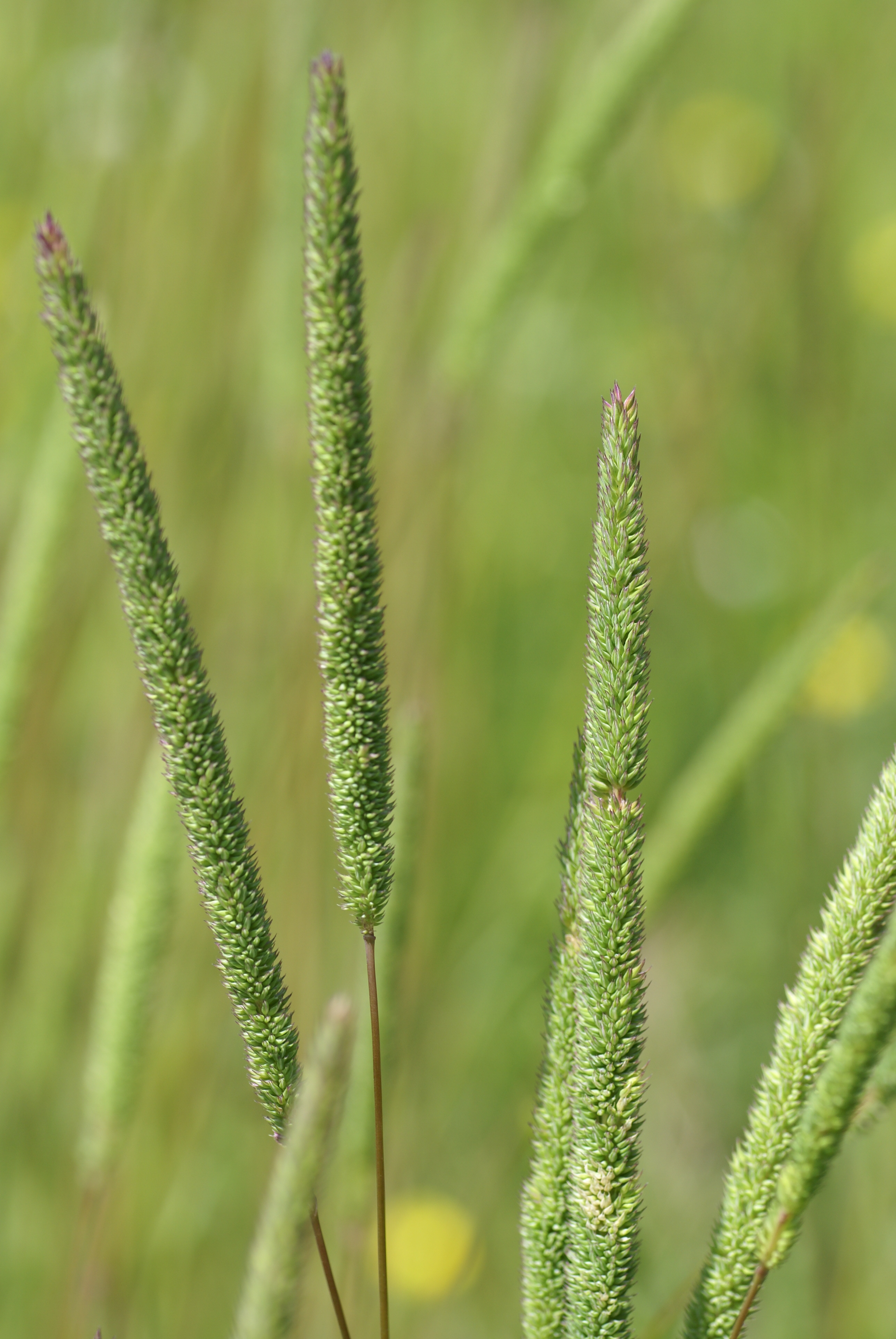 Plant species Phleum phleoides a few hundred meters from Skokloster castle in Sweden.